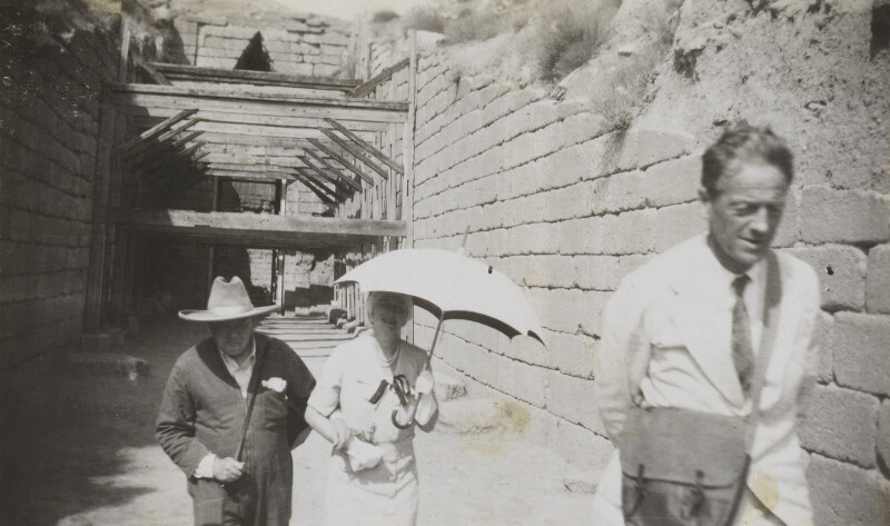 Churchill and lord Moyne in vacation in GreeceDepicted people: Winston Churchill, Clementine Churchill, Baroness Spencer-Churchill and Walter Guinness, 1st Baron Moyne